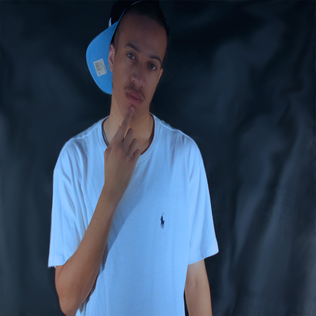 TooSmooth At Label (Lights Out Entertainment LLC) Photo Shoot